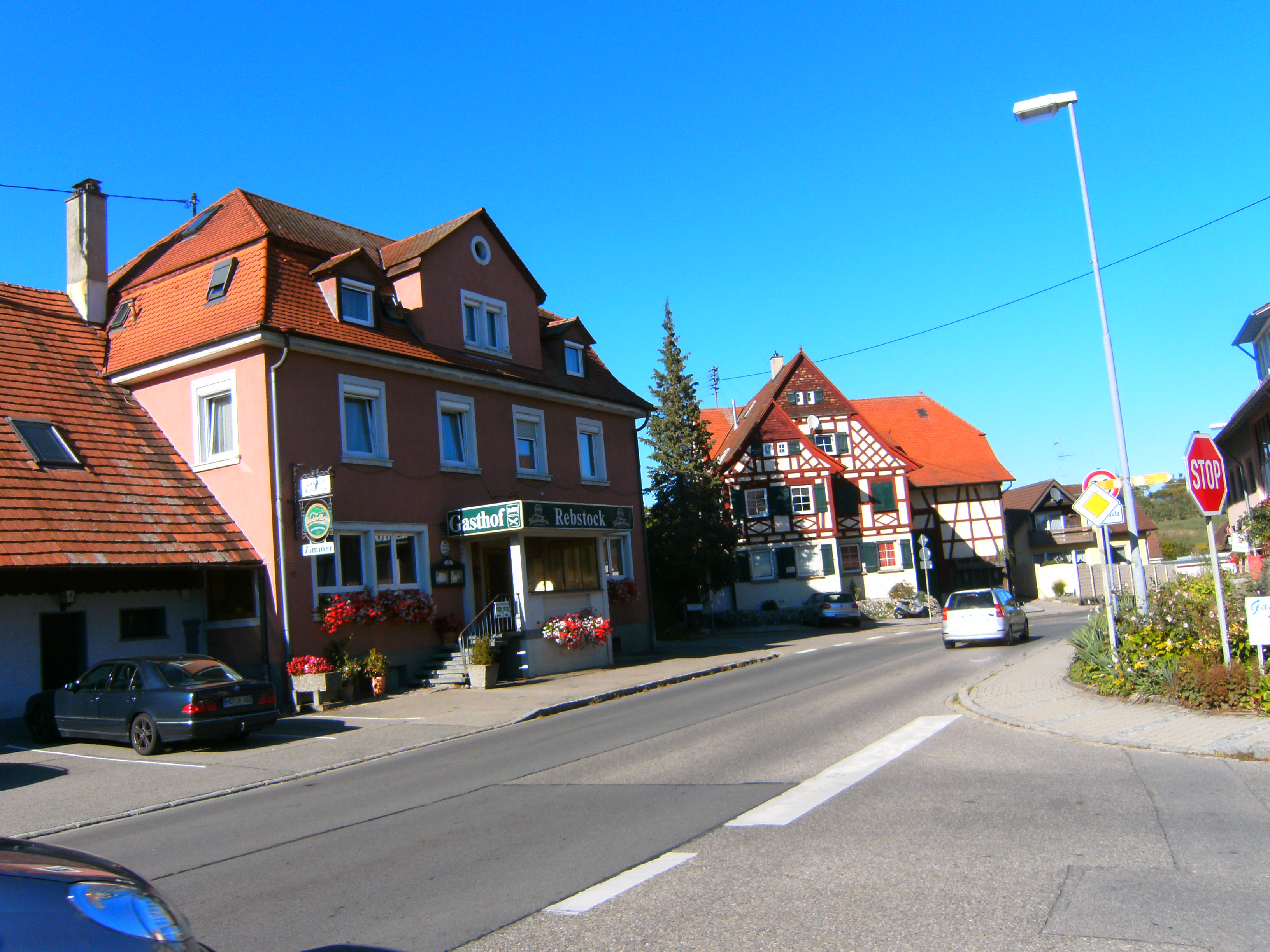 Stetten (Bodenseekreis), Germany: Road Bundesstraße 33 passing through Stetten.